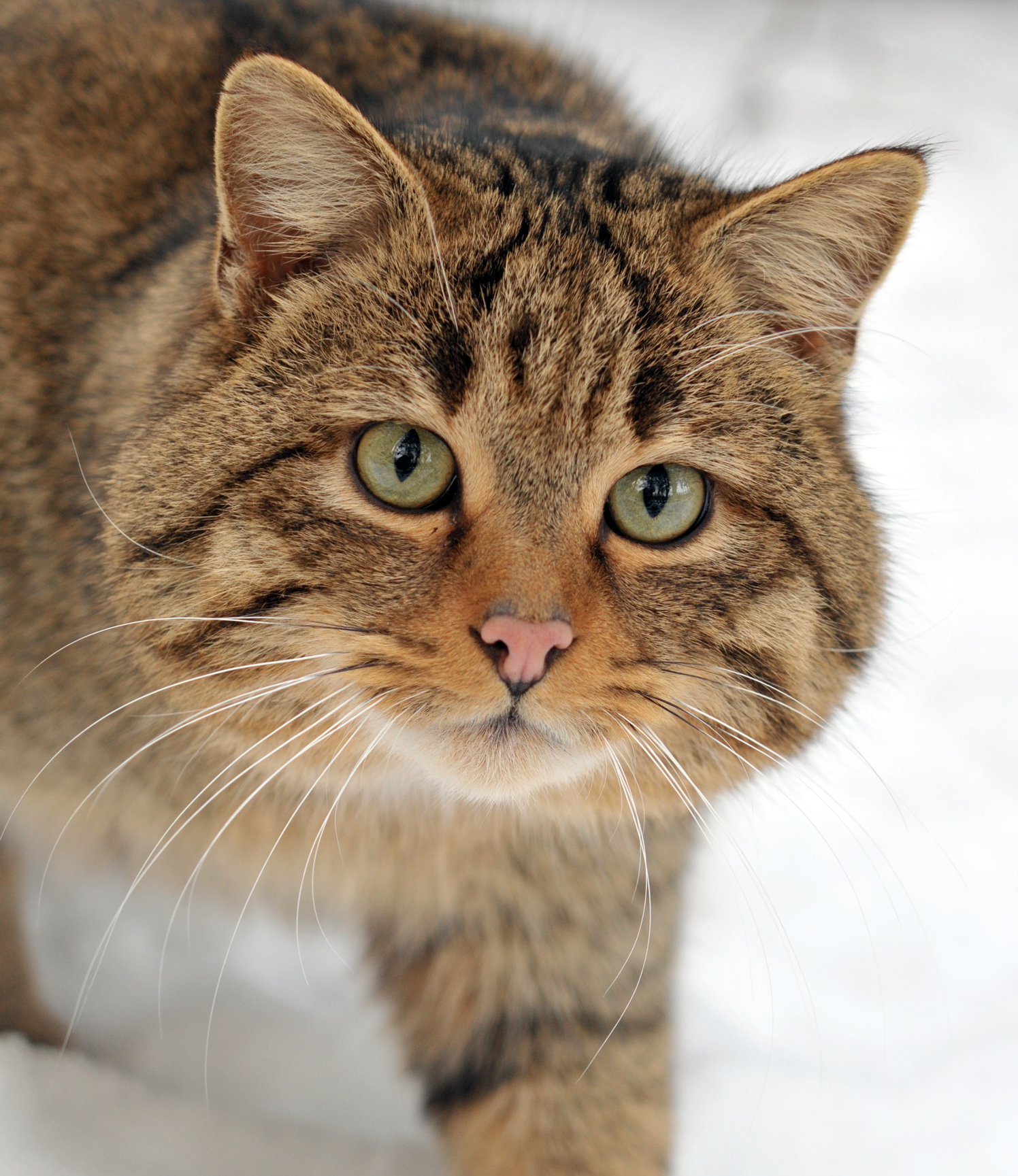 European Wildcat in the Wisentgehege Springe game park, near Springe, Hanover, Germany